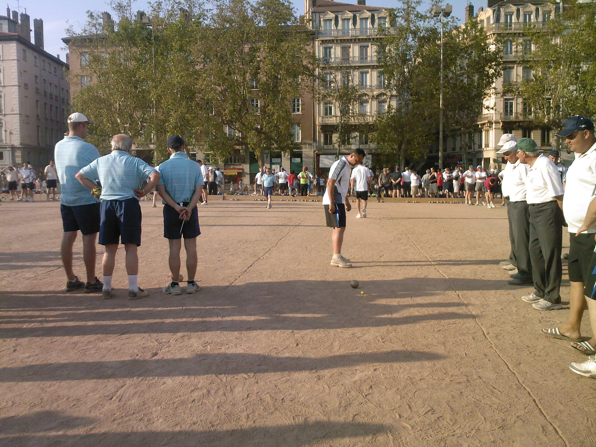 Tournament of "Boules lyonnaises" (which is not pétanque) during Pentecost in 2008, on Place Bellecour in Lyon (France).